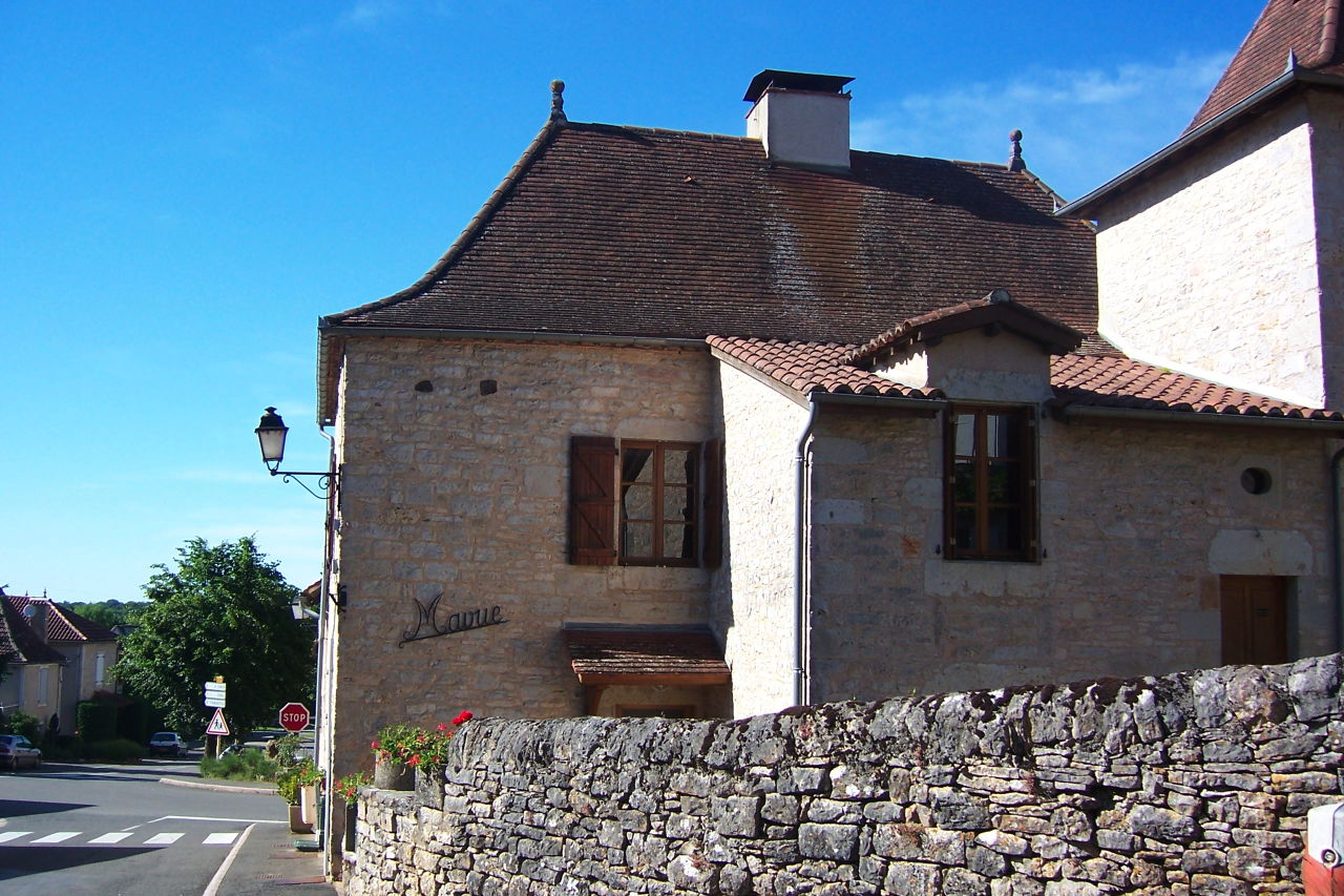 Municipal building of Livernon (Lot - France).